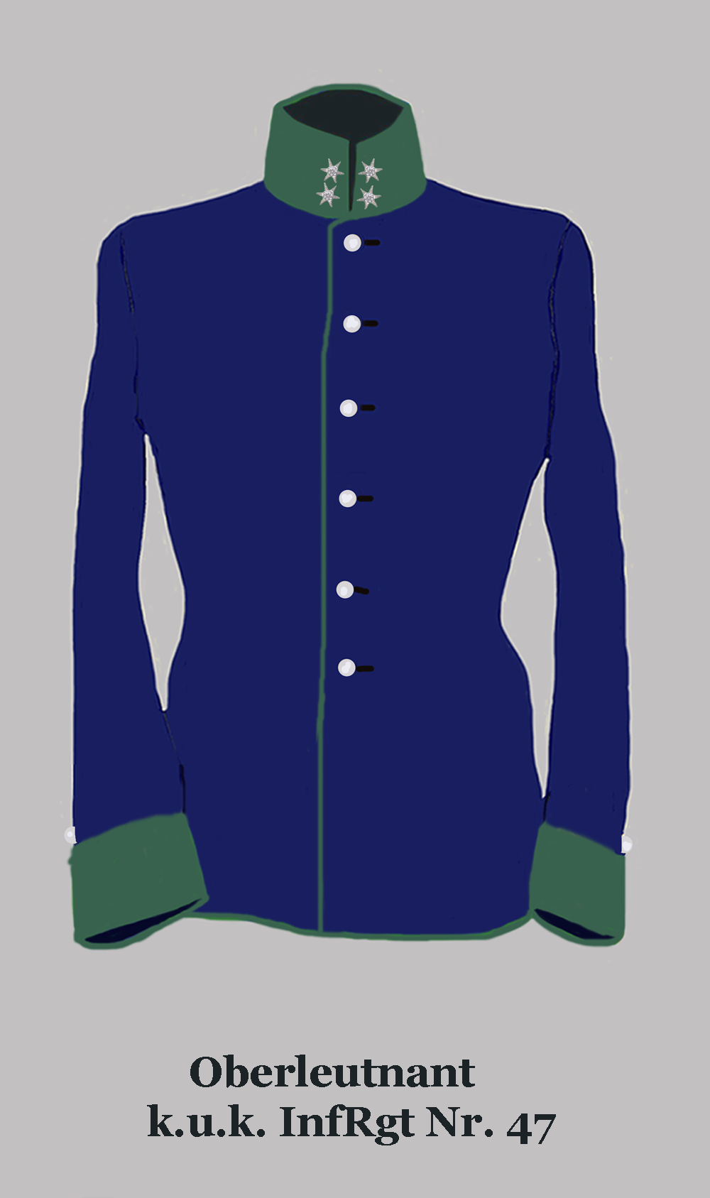 1st Leieutenant of the Austria-Hungarian infantry (German style tunic with steel-green regimental identification color and white buttons)